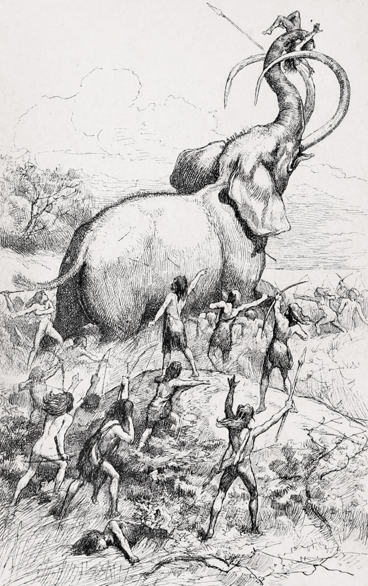 Fanciful restoration of a Columbian mammoth hunted by Palaeoamericans.